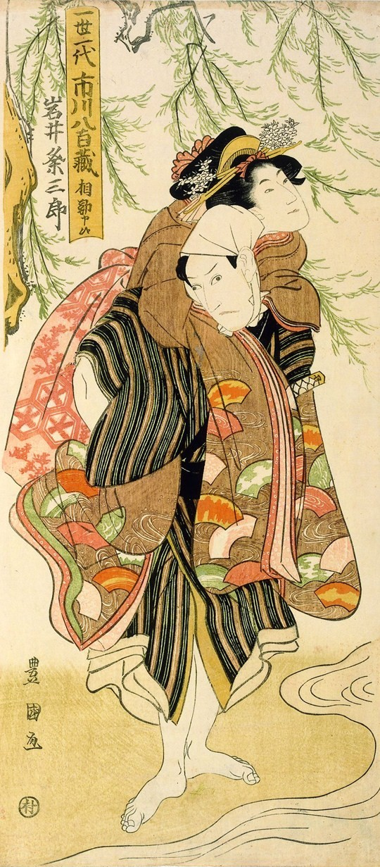 Woodcut print Actors Iwai Kumesaburō I and Ichikawa Yaozō III as Ohan and Chōemon, by Japanese artist Utagawa Toyokuni, circa 1800; owned by the Chazen Museum of Art at the University of Wisconsin, Madison; a rare, oversized print format called "nagaban". It shows the two principle characters of the popular kabuki play Love Suicide of Ohan and Chōemon at the Katsura River". The play is about a true story of a doomed relationship between a 38-year-old silk merchant and his 14-year-old neighbor.